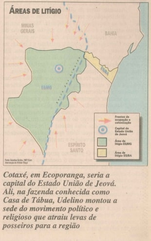 Capital do Estado União de Jeová